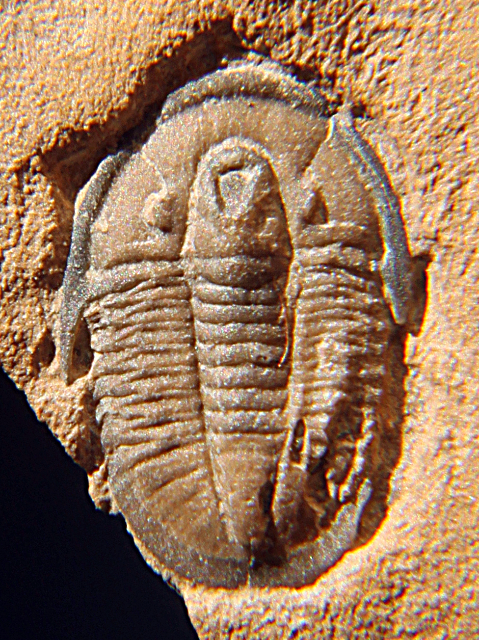 A Cedaria minor trilobite, 11mm, Order Ptychopariida, Family Cedariidae, collected from the Weeks Formation, House Range, Millard County, Utah, USA, from the early Upper Cambrian